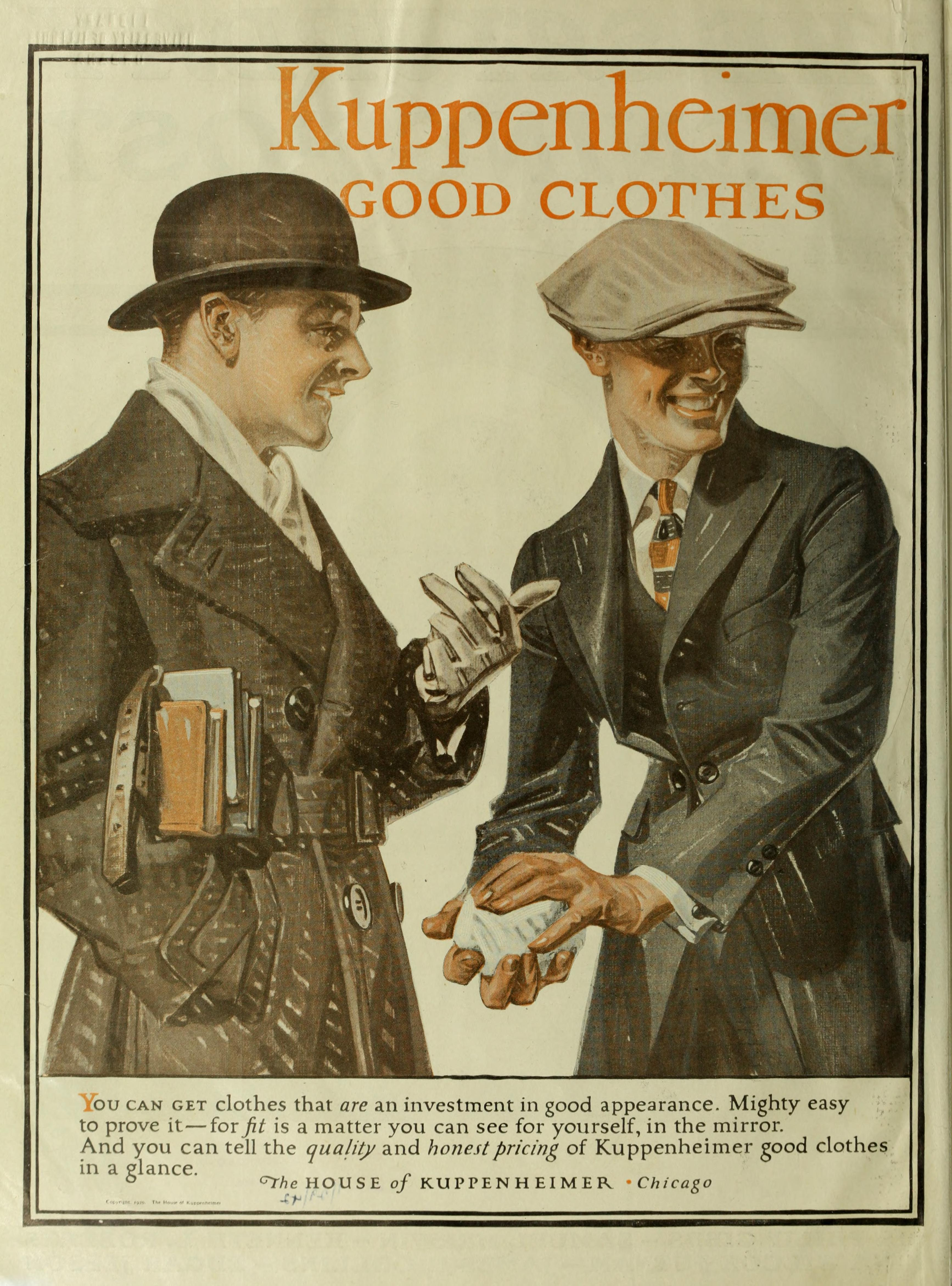 Kuppenheimer Good Clothes, 1920 Title: The Saturday evening post Year: 1839 (1830s) Authors: Subjects: Publisher: Philadelphia : G. Graham Text Appearing Before Image: ' Text Appearing After Image: You can get clothes that are an investment in good appearance. Mighty easyto prove it—for fit is a matter you can see for yourself, in the mirror.And you can tell the quality and honest pricing of Kuppenheimer good clothesin a glance. ° cirhe HOUSE of KUPPENHEIMER Chicago C , , „.H».W Wn THE SATURDAY EVENING POST